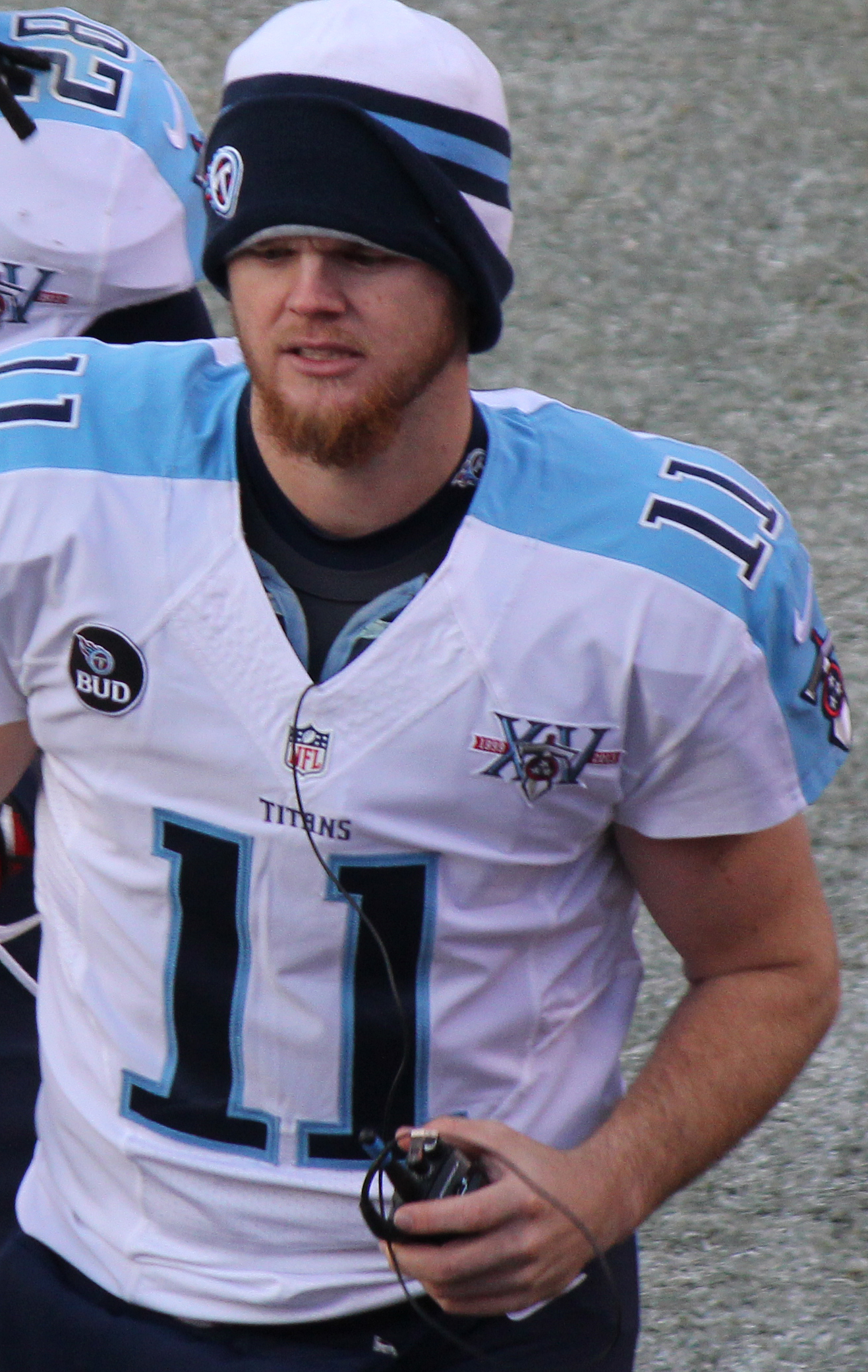 Rusty Smith, a player on the National Football League.